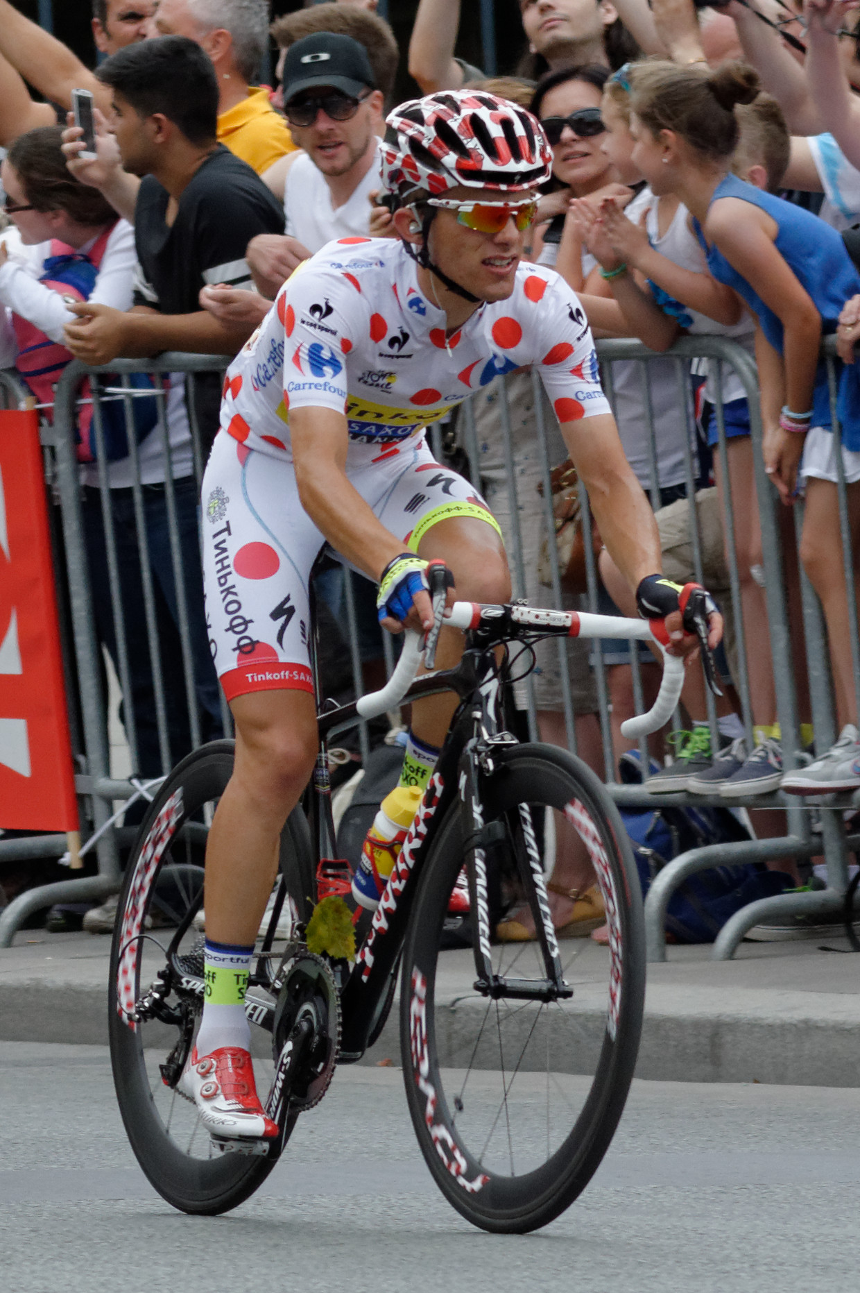 Stage 21 of the 2014 Tour de France, Paris.